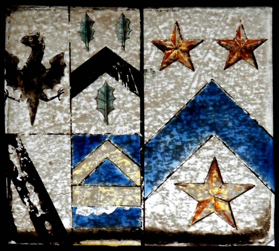 Stained glass window now in stables of Holnicote House, Selworthy, Somerset. (Per information notice attached to window, 2014) These are the arms of arms of Charles Steyning (d.1592) of Holnicote, of four quarters, impaling the arms of his wife (Margaret?) Pollard. 1st quarter Argent, a bat displayed sable (Steyning) 2nd: Argent, a chevron sable between three holly/ilex leaves erect proper (de Holne) 3rd: Argent, on a bend sable three fishes (Huish) 4th: Azure, a fess in chief a chevron argent (Sprye)(Robert Steyning (d.1483) married Love Sprye of Devon). All impaling: Argent, a chevron azure between three mullets gules (Pollard), for his wife Margaret Pollard (1561-1631) of Kilve, Somerset. (See her monumental brass in Selworthy Church). The Pollards of Kilve were descended from Richard Pollard of Kilve, 2nd son of Robert Pollard (d.1576) of Knowstone, Devon[1] by his wife Agnes Chichester, daughter of Richard Chichester of Hall, Bishops Tawton, Devon. Robert Pollard was the 4th son of Sir Lewis Pollard (c.1465-1526) of Kings Nympton, Devon, Justice of the Common Pleas